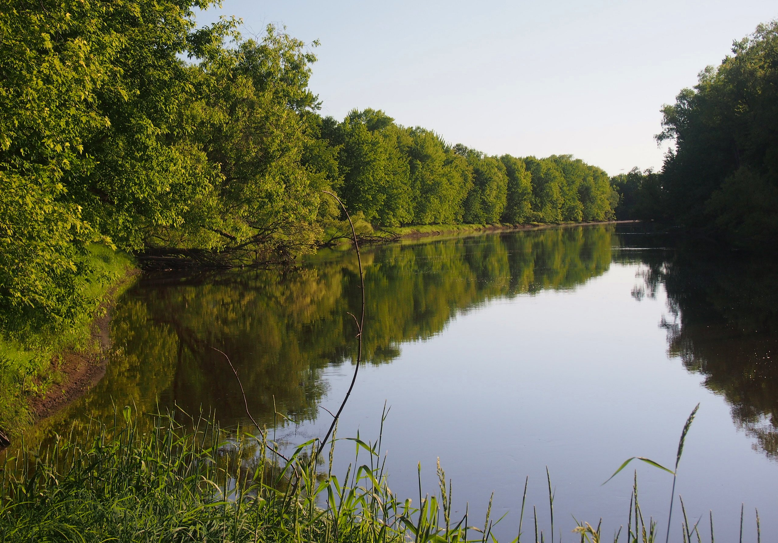 Vicinity of the Andy Gibson steamboat shipwreck in the Mississippi River, Aitkin Township, Minnesota, USA. Viewed from the east.